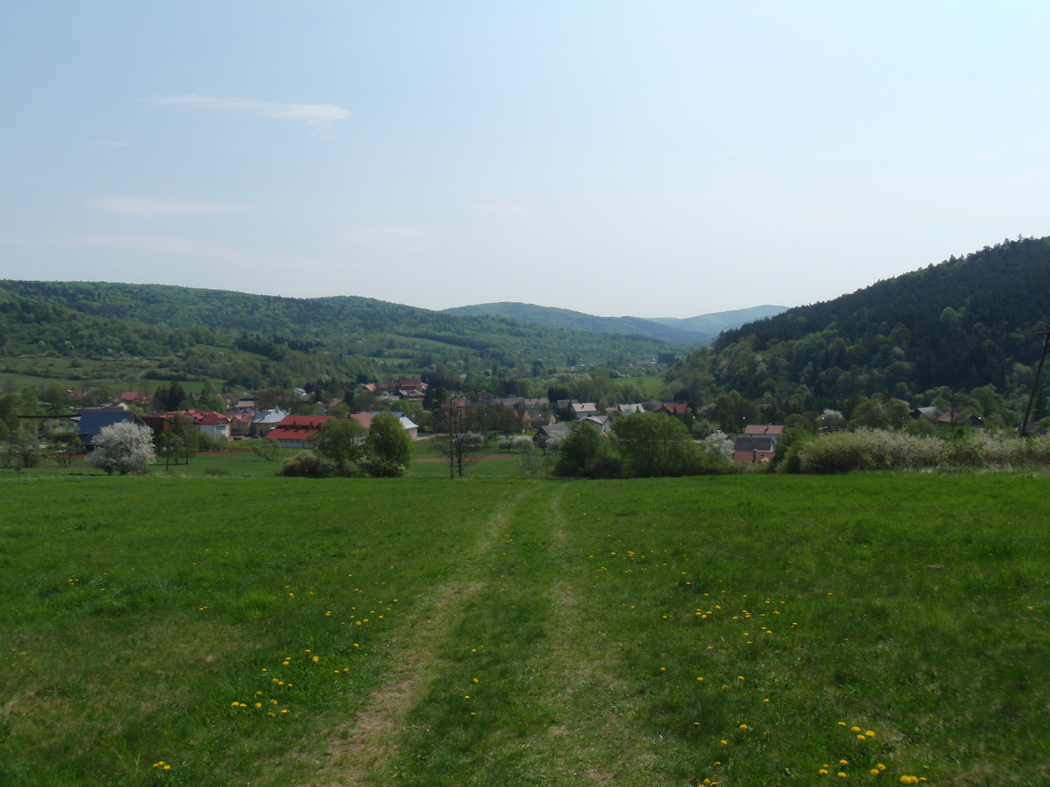 Krempna village - general view